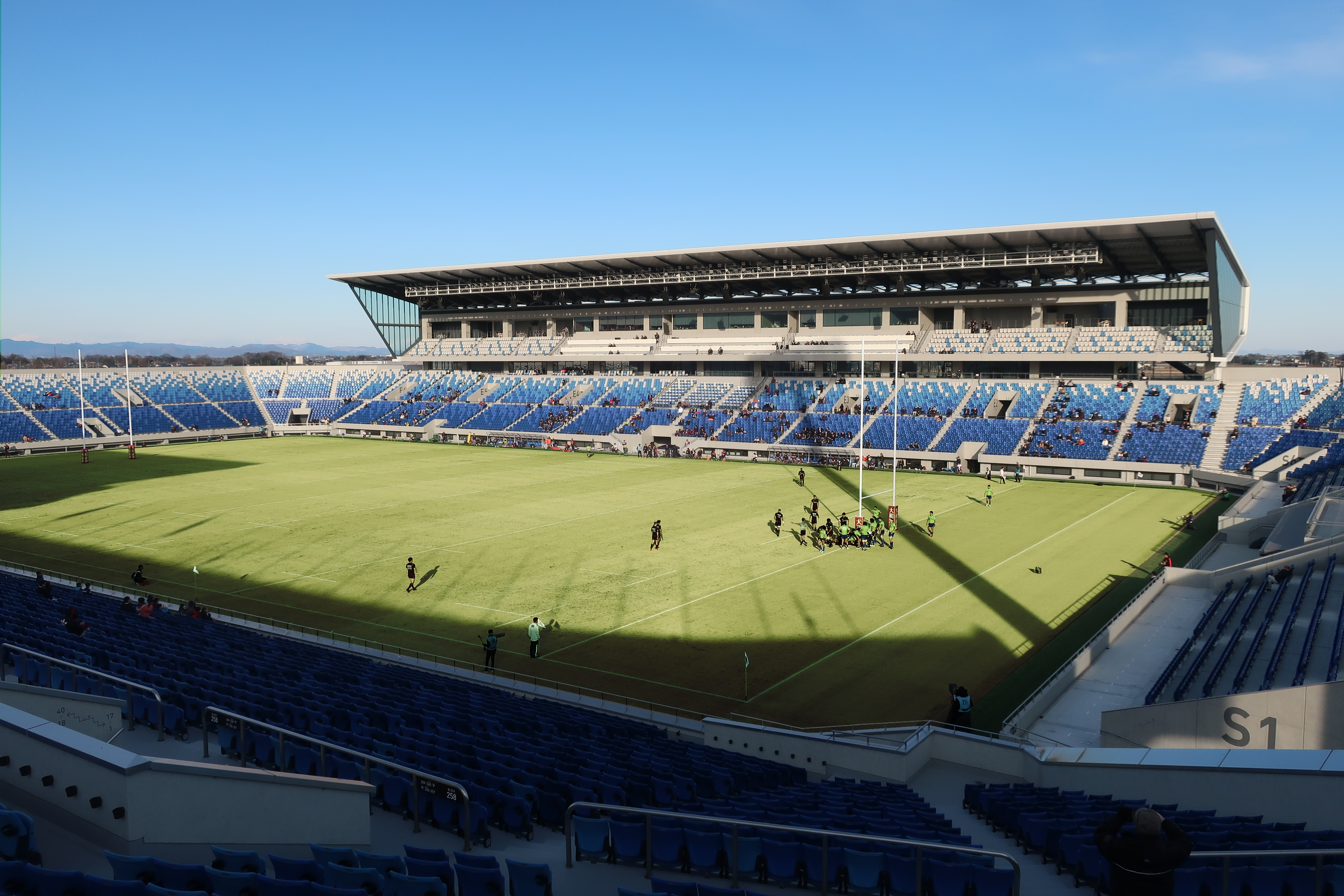 KumagayaRugby Stadium